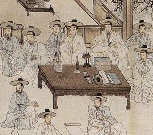 A Joseon painting which represents the Jungin (literally "middle people"), equivalent to the petite bourgeoisie.